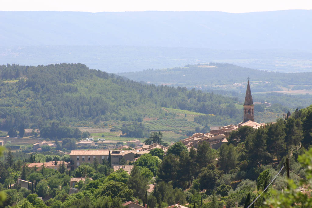 village of Saint Saturnin d'Apt, France